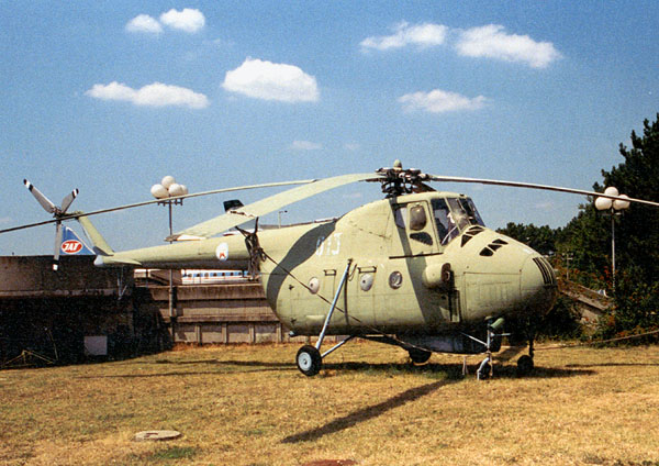 Own work by author, Kraljević Marko: Picture taken in front of The Belgrade Aviation Museum all rights released (PD)